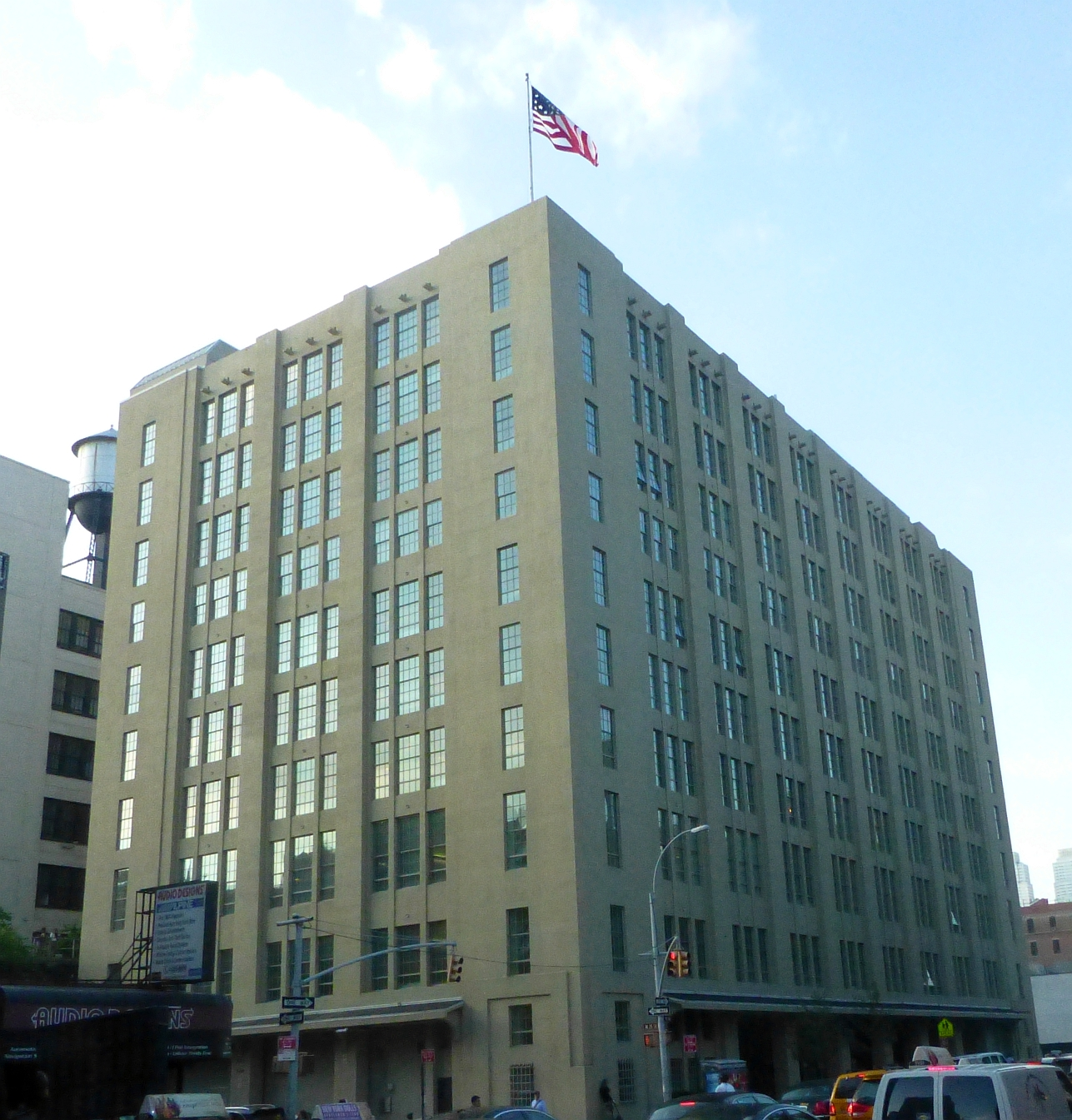 Avenues: The World School on May 20, 2013.